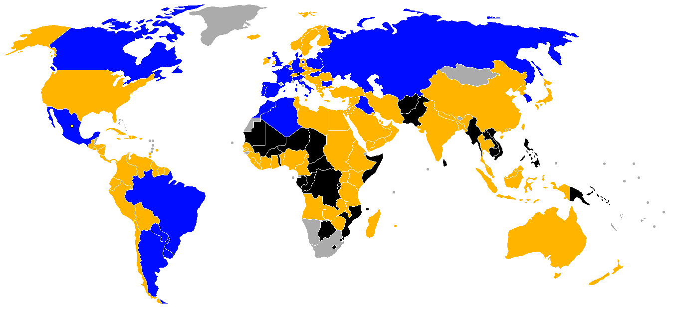 Status of countries with respect to 1986 FIFA World Cup: Qualified for World Cup finals Failed to qualify for World Cup finals Did not enter World Cup Not an associate member of FIFA